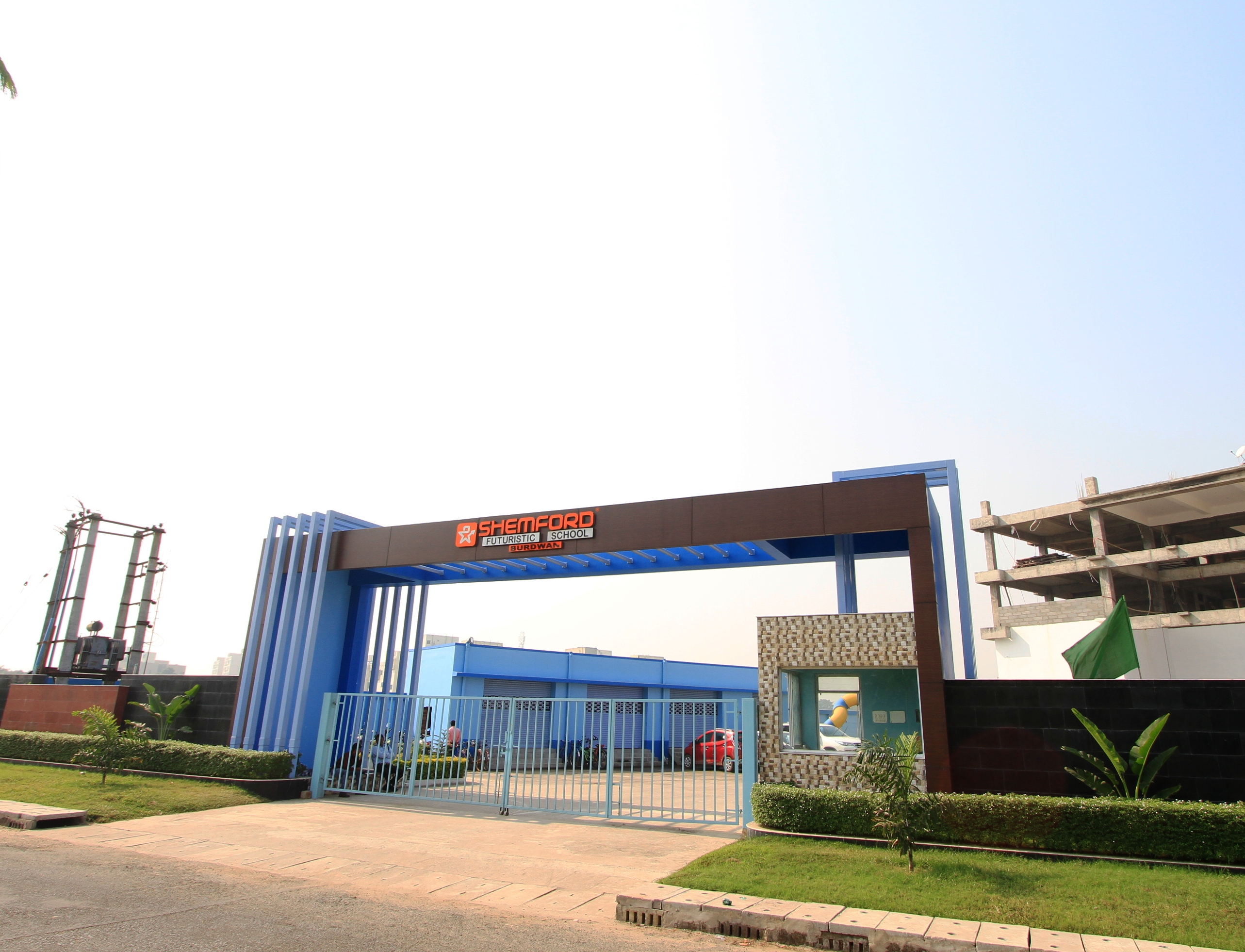 Entrance Gate of Shemford Futuristic School ,Burdwan